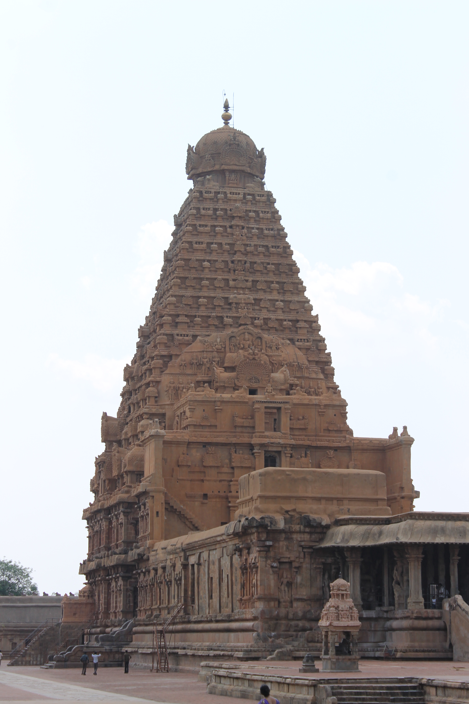 "A beautiful scene of World heritage monument The Big Temple". Location: Thanjavur and district, The State of Tamil Nadu, India.